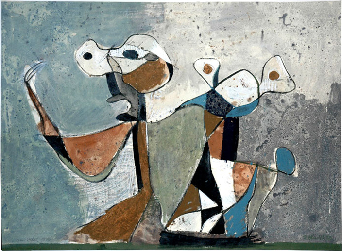 tempera on paper, author: Jan Hladík